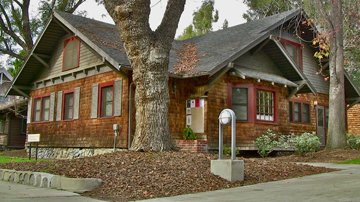 CGU Arts and Humanities Building, Claremont, California